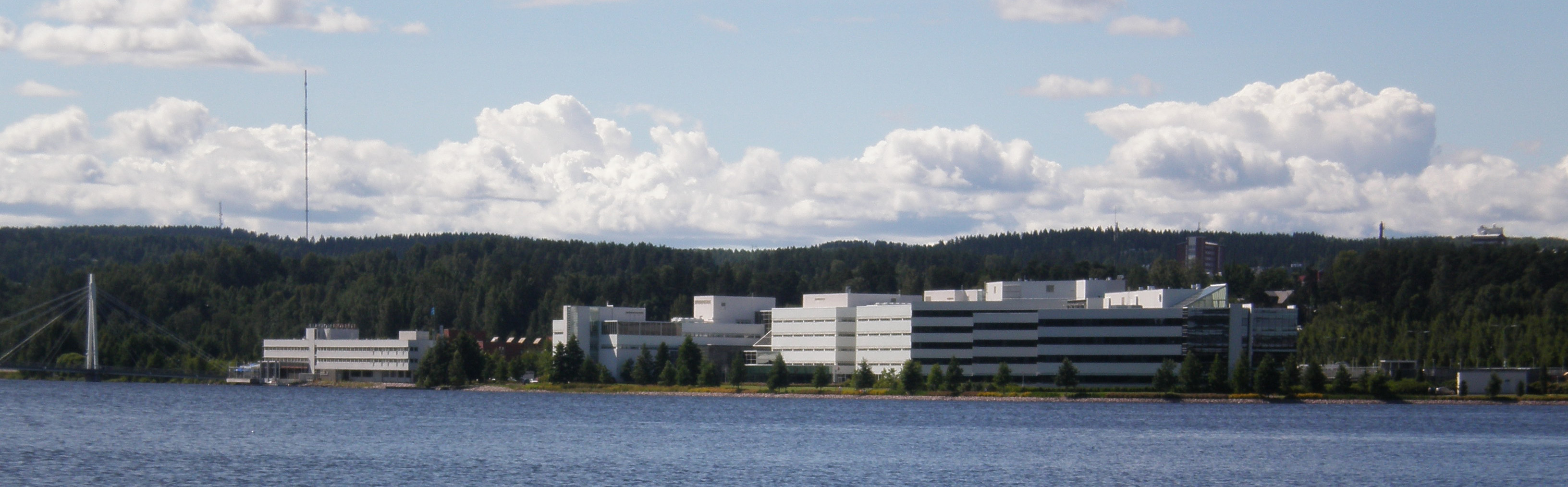 University of Jyväskylä in Jyväskylä, Finland